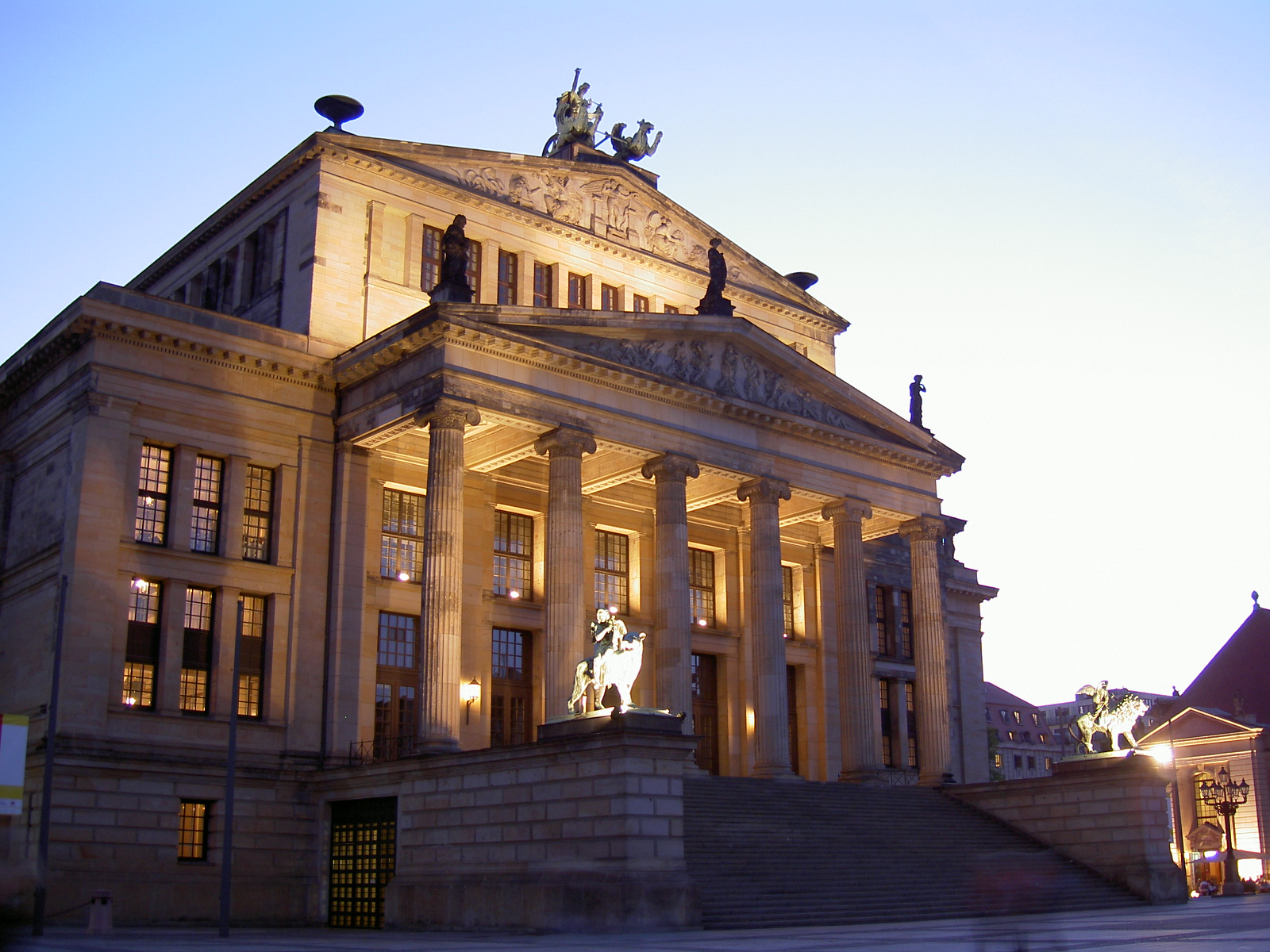 Concert hall on the Gendarmenmarkt in Berlin-Mitte